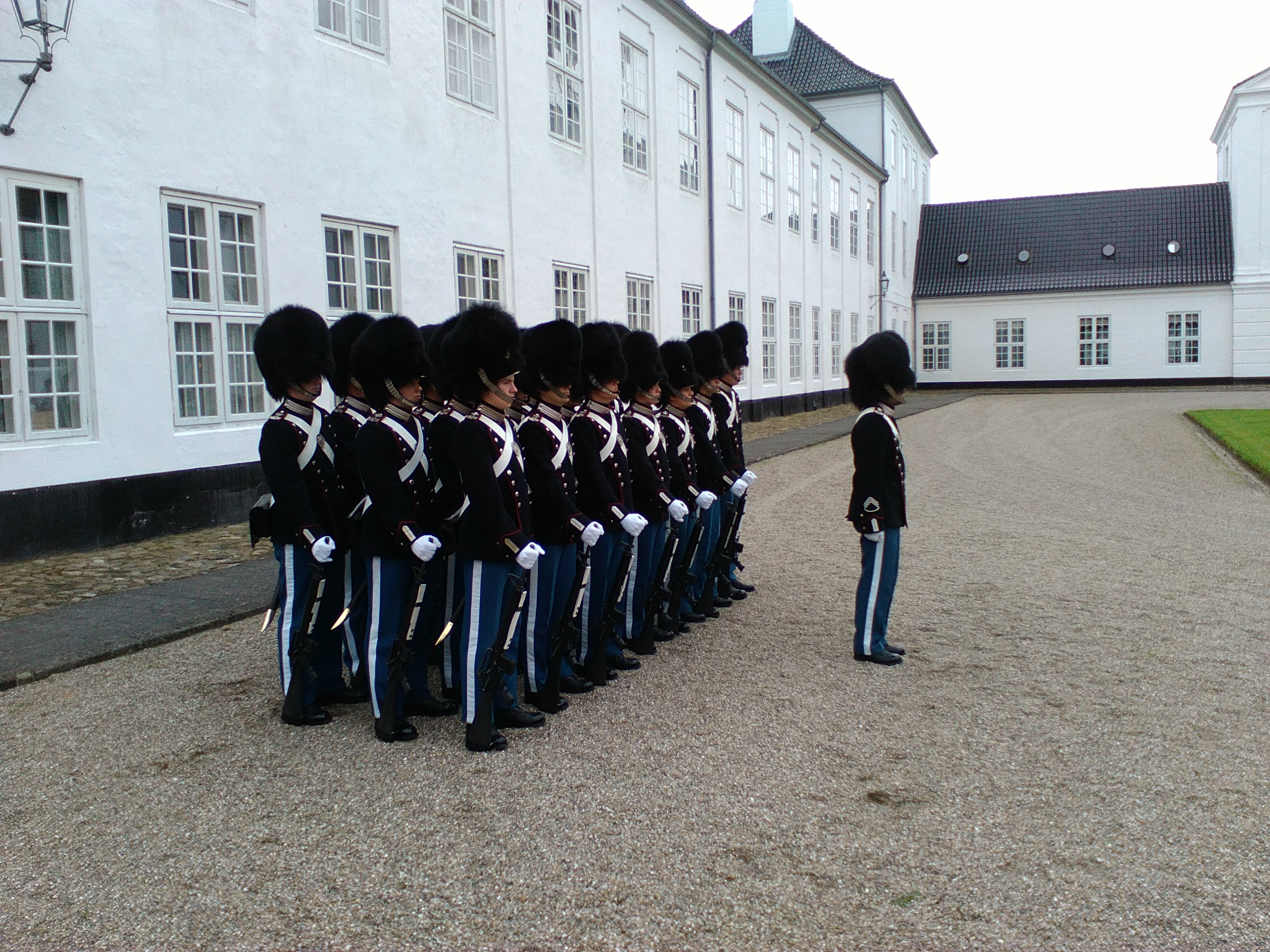 changing of the guard, Gråsten palace, Gråsten, Denmark